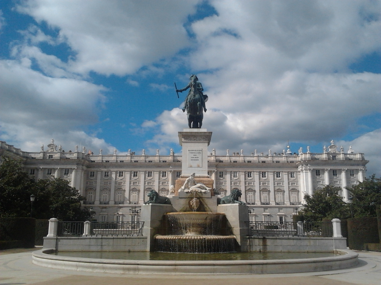 The statue of Phillip IV of Spain with the Royal Palace of Madrid behind it.